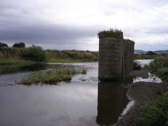 Bridge Pontoon from the old Roxburgh to Jedburgh Railway